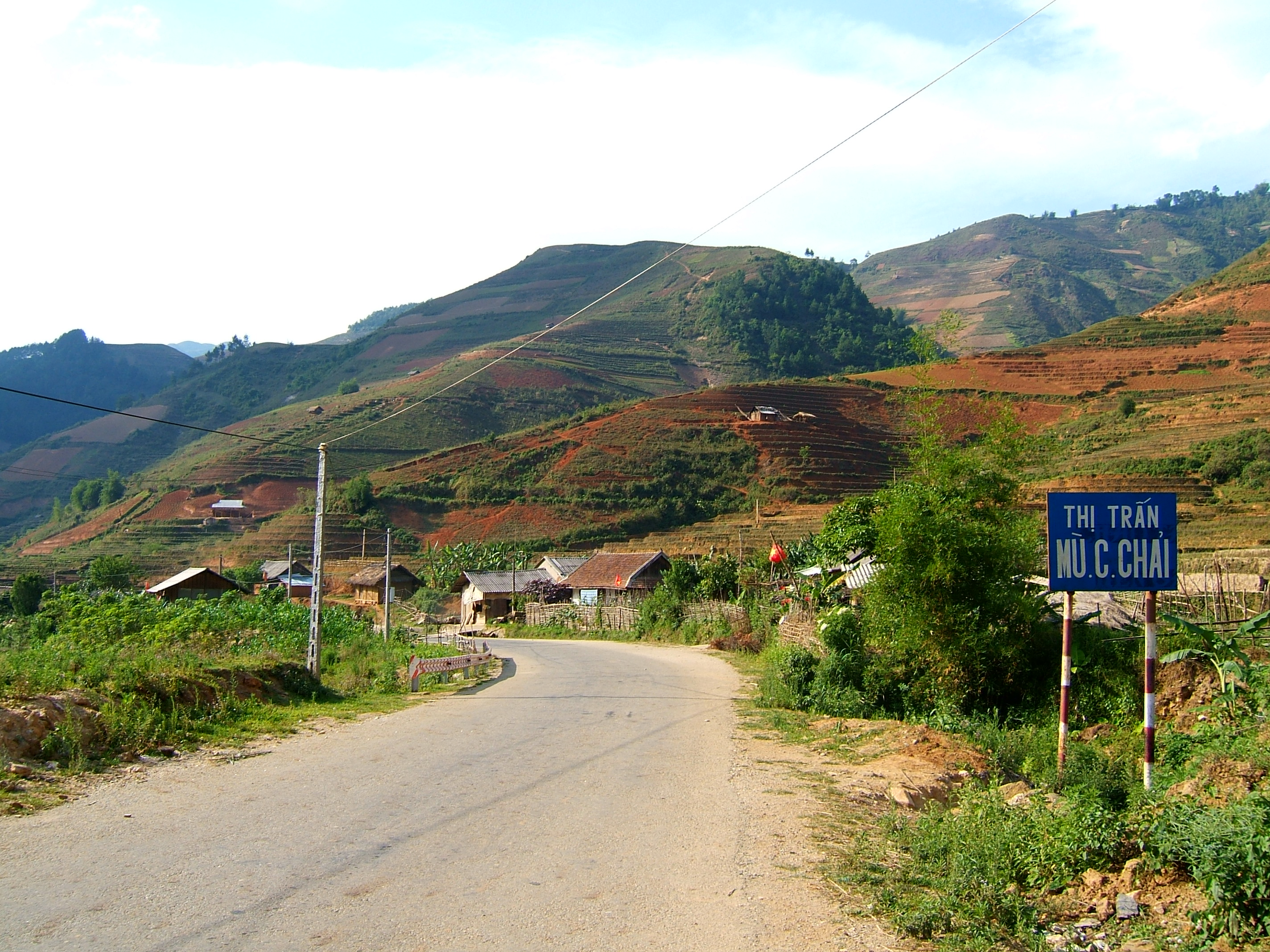 Mu Cang Chai District, Yen Bai Province, Northwest Vietnam